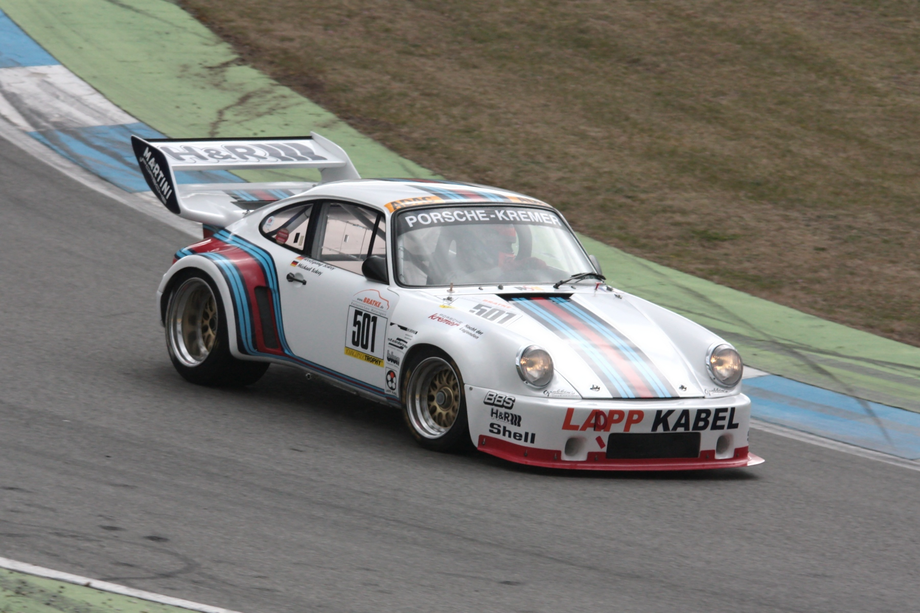 Porsche 935 K1 with early '76 bodykit driven by Michael Schrey at Preis der Stadt Stuttgart 2012